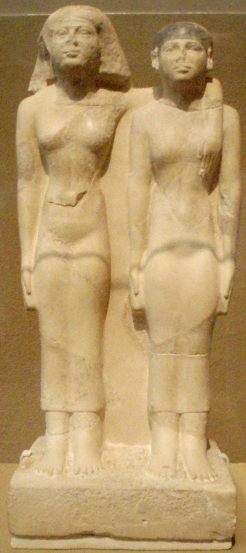 A limestone "pair statue" of Queens Hetepheres II and Meresankh III. Hetepheres II was the mother of Meresankh III, and in this statue embraces her daughter, who predeceased her. Found in Meresankh III's tomb, originally from Giza (tomb G 7530-7540), from the 4th dynasty, circa 2630-2524 BC. Museum Expedition 30.1456.If born late of King Sneferu-(reign: 2613-2589 BC), or Khufu-(2589-2566), then the years may be 2590s-80s down to the ca 2524 BC. -(see: Meresankh III, Hetepheres II articles)